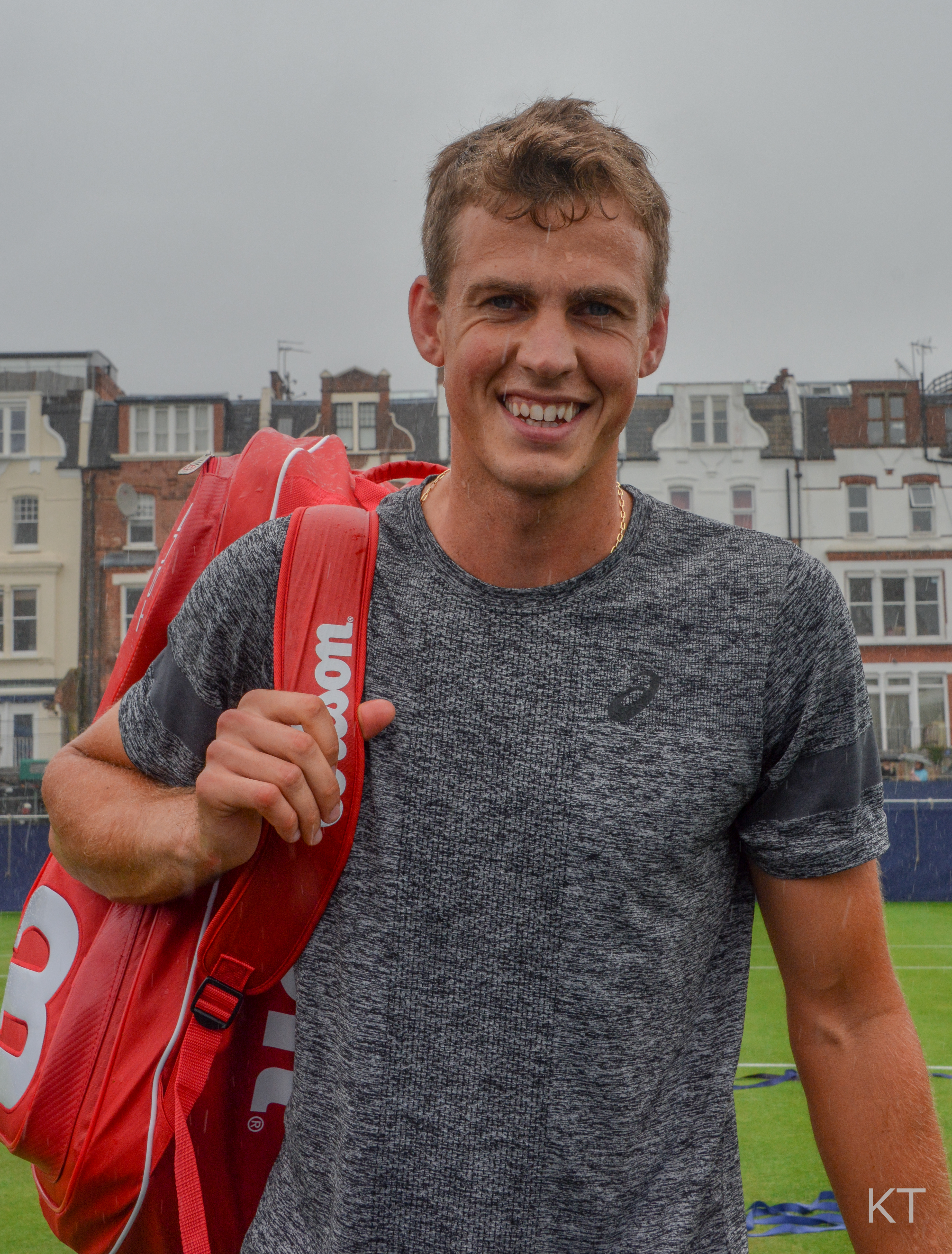 Aegon Championships 2016.